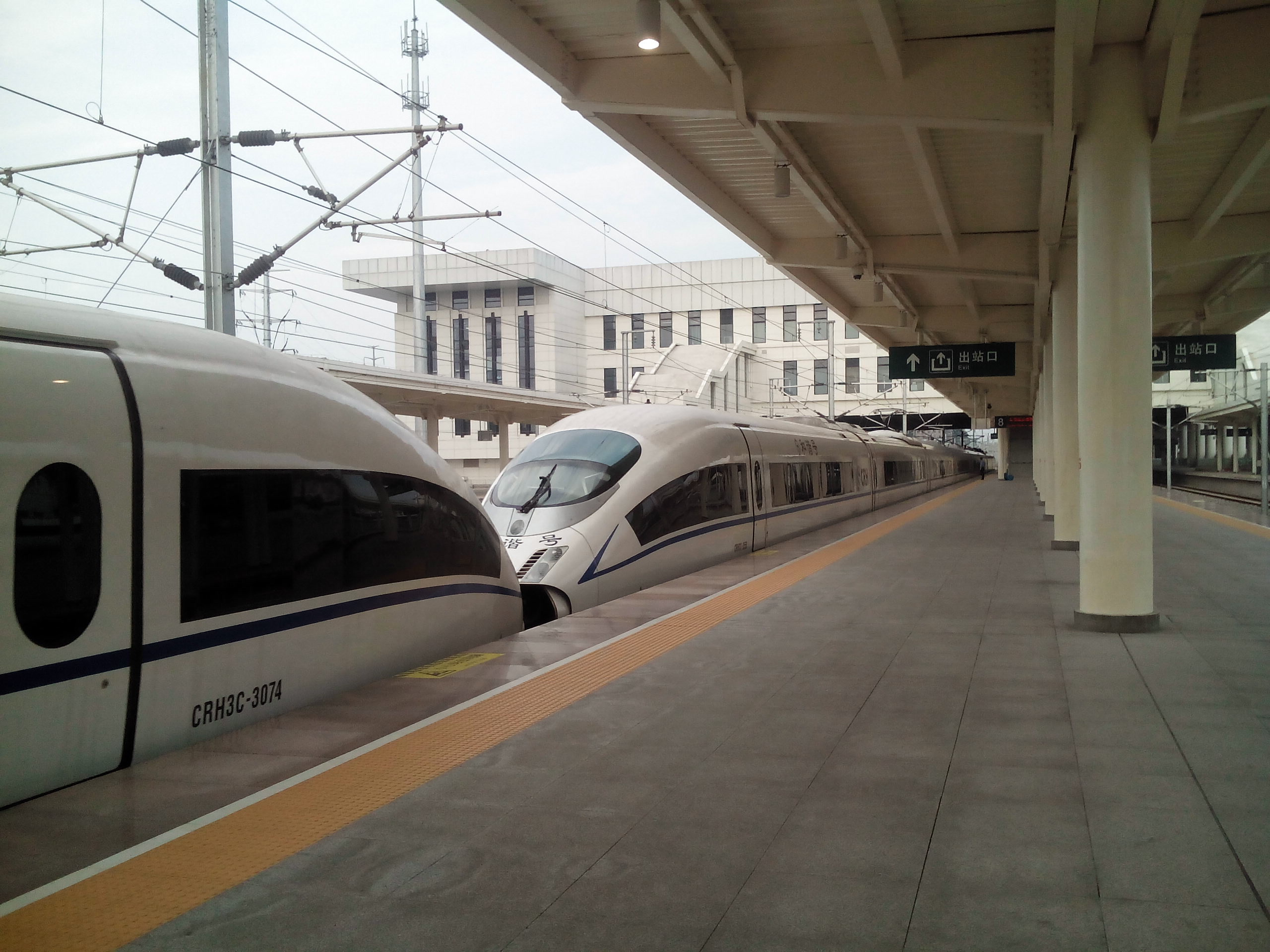 When it was operated by Guangzhou-based CRH3Cs...